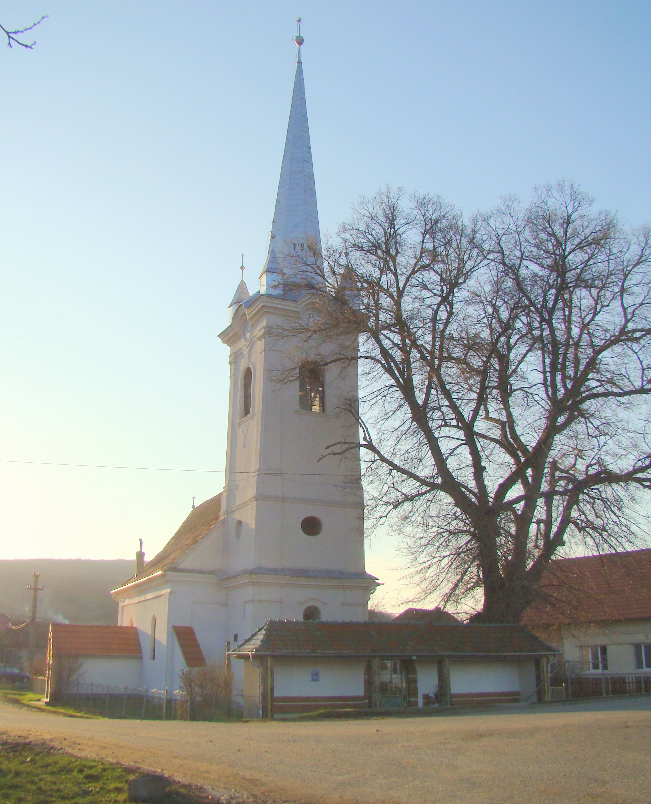 Reformed church in Cinta, Mureș County, Romania